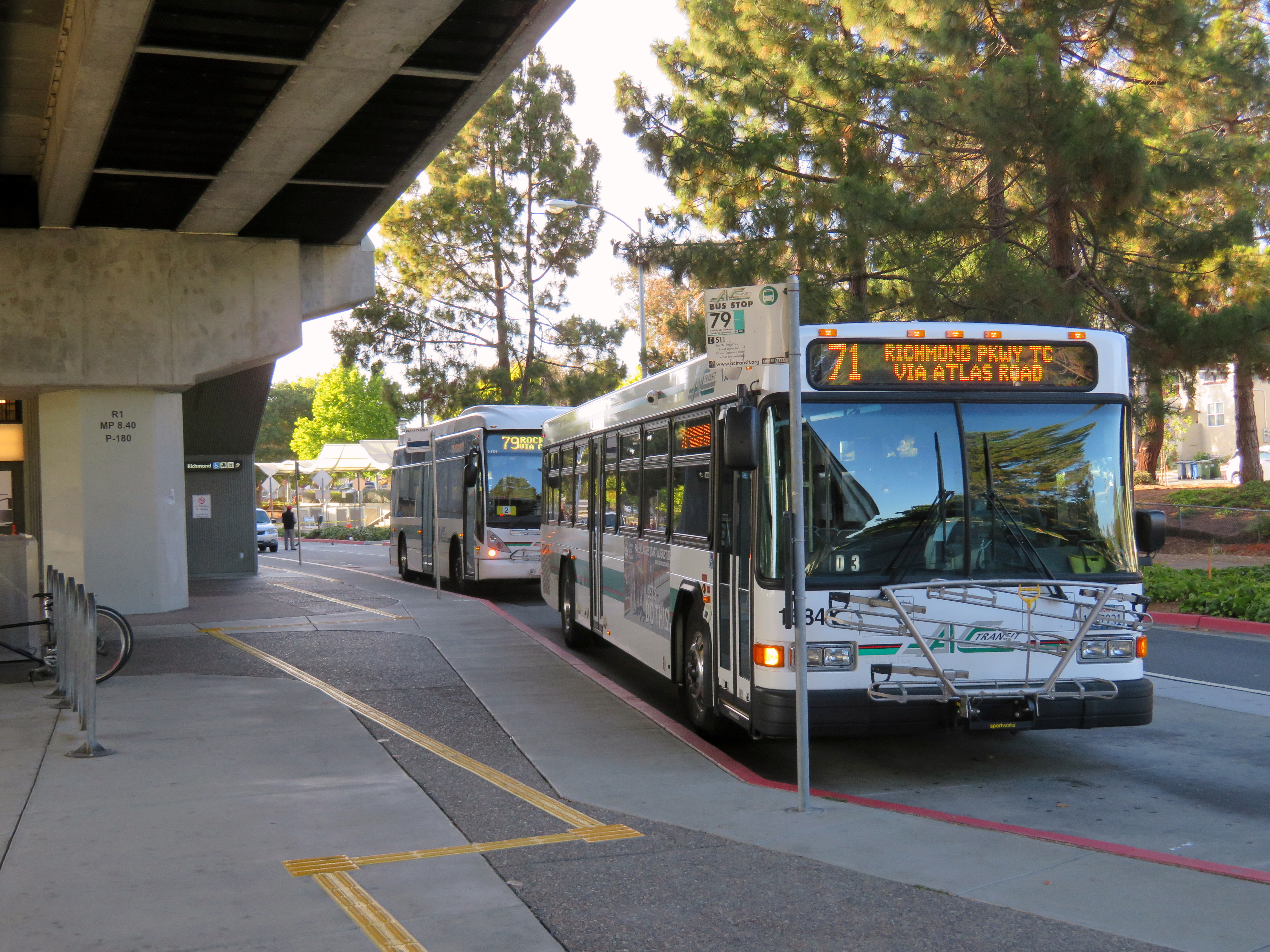 AC Transit buses at El Cerrito Plaza station in July 2018